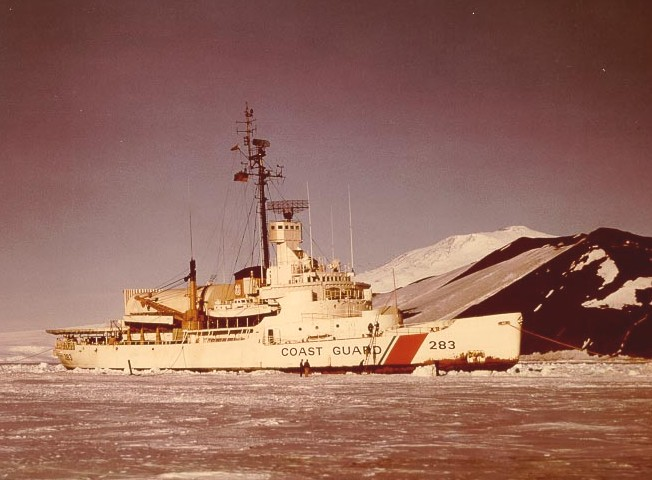 USCGC Burton Island (WAGB-283) 1968 McMurdo Sound Antarctica. Photo by LCDR H. Stracener, USCG.